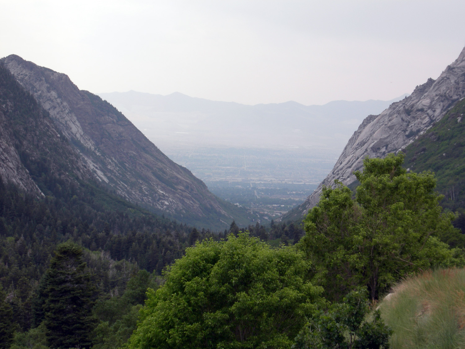 U-shaped valley carved by a glacier; Little Cottonwood Canyon, Wasatch Mountains, Utah.